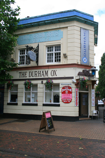 The Durham Ox I won't even start to describe the changes to this establishment since it was a Home Brewery house - because I'll cry!